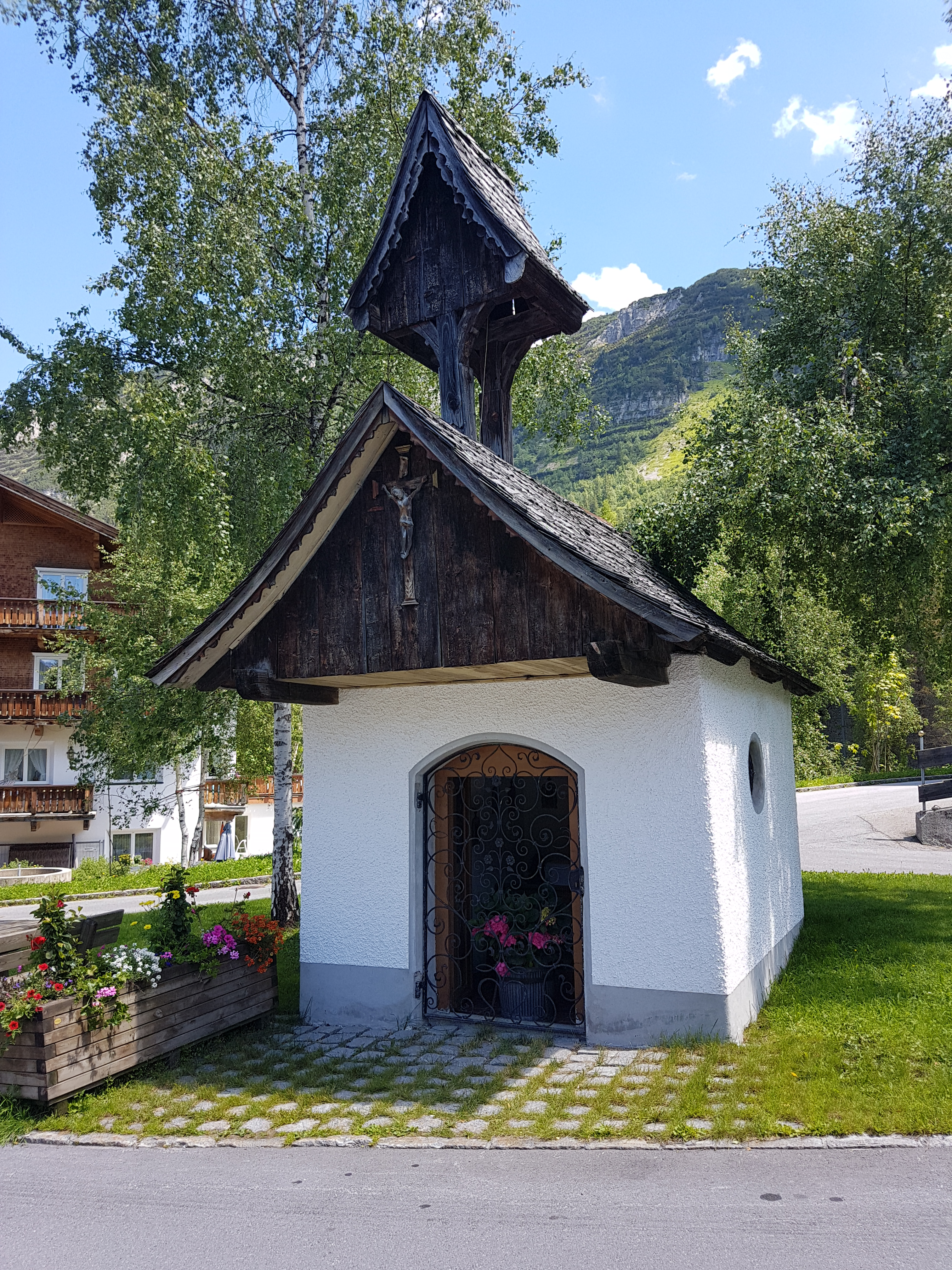 Chapel to the saints Florian and Agatha in the district Omesberg in Lech